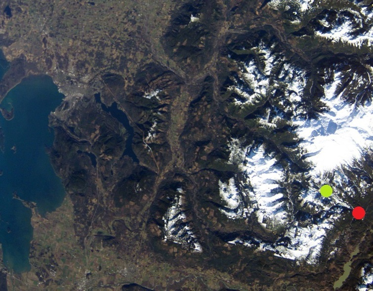 Map of the Koma Kulshan Project on Mount Baker in Washington state (USA). Approximate location of powerhouse shown as red dot, approximate location of dam(s) shown as green dot. Base image is a public domain NASA photograph.